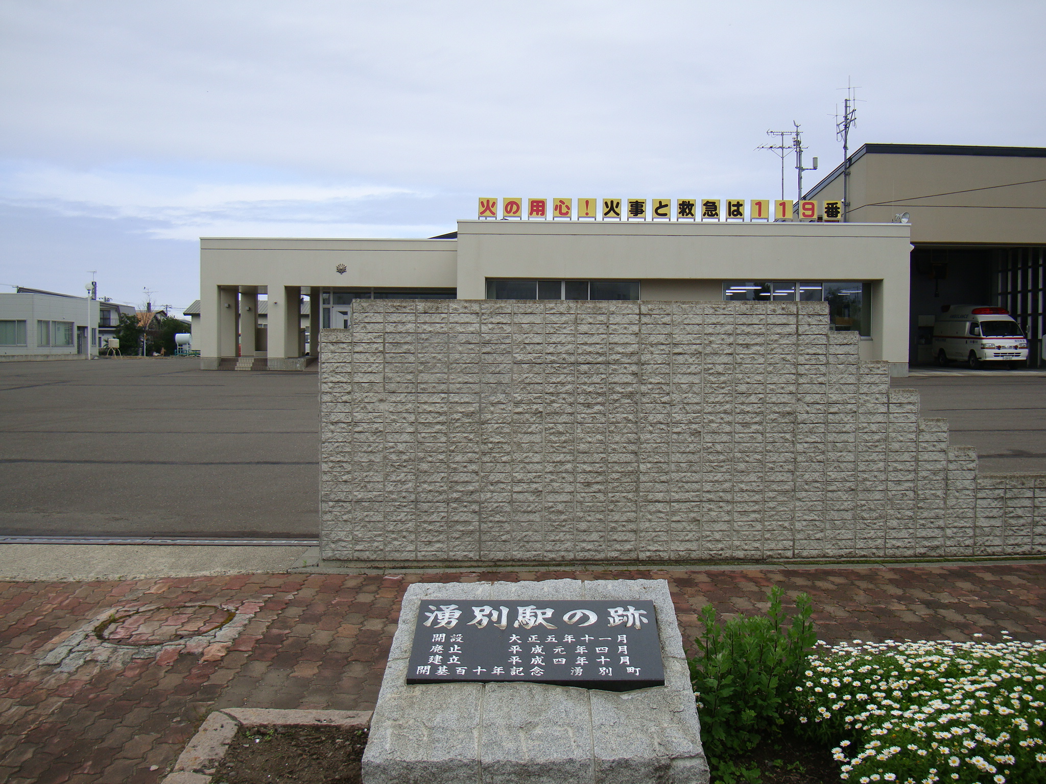 Yūbetsu Station removal trace. Disused train stations on Nayoro Main Line.